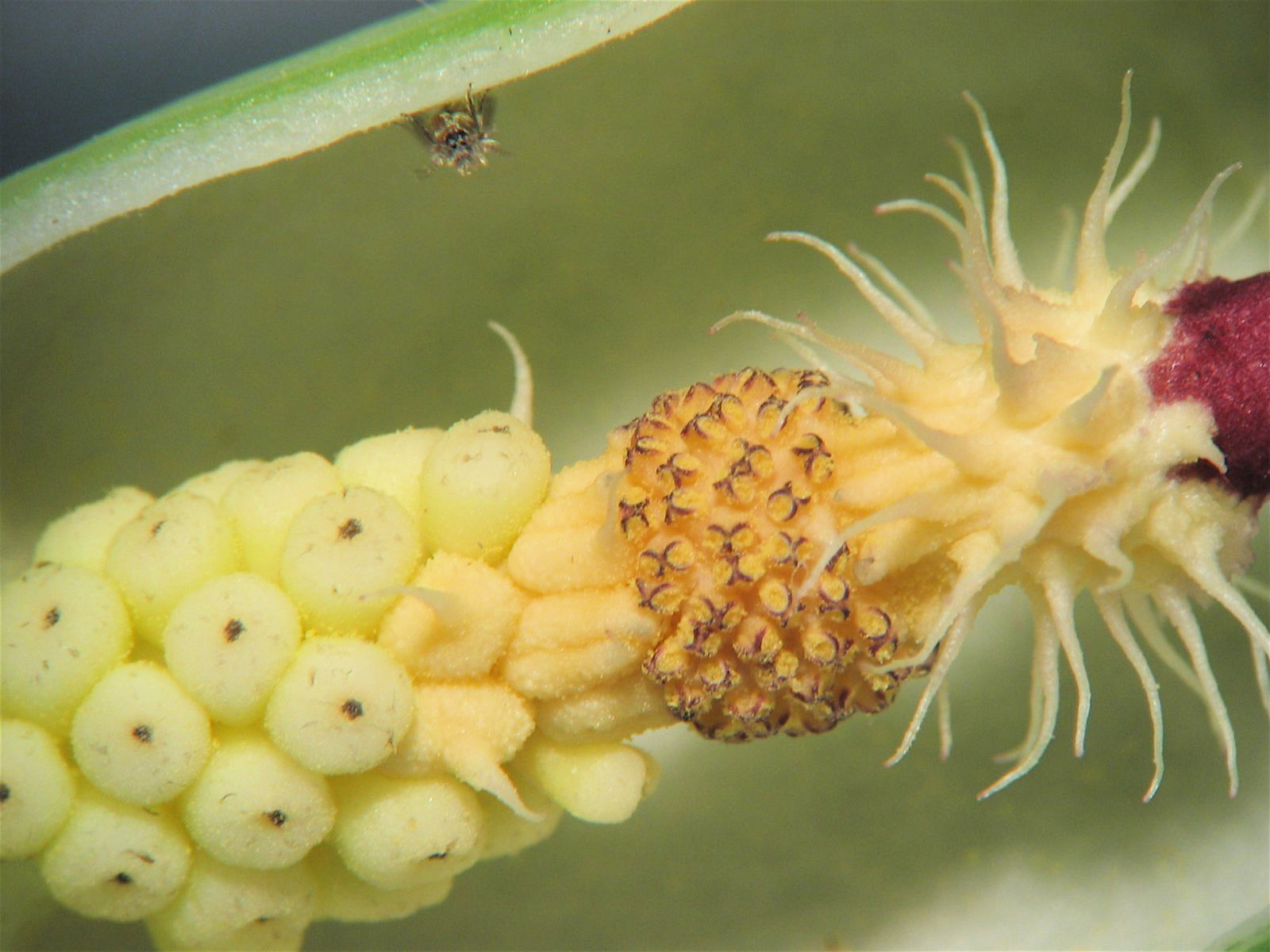 Detailaufnahme der Blüte des Gefleckten Aronstabes Arum maculatum, note: this photo is a color, lightness and balance improved version of the original Image:arum_maculatum_detail.jpeg